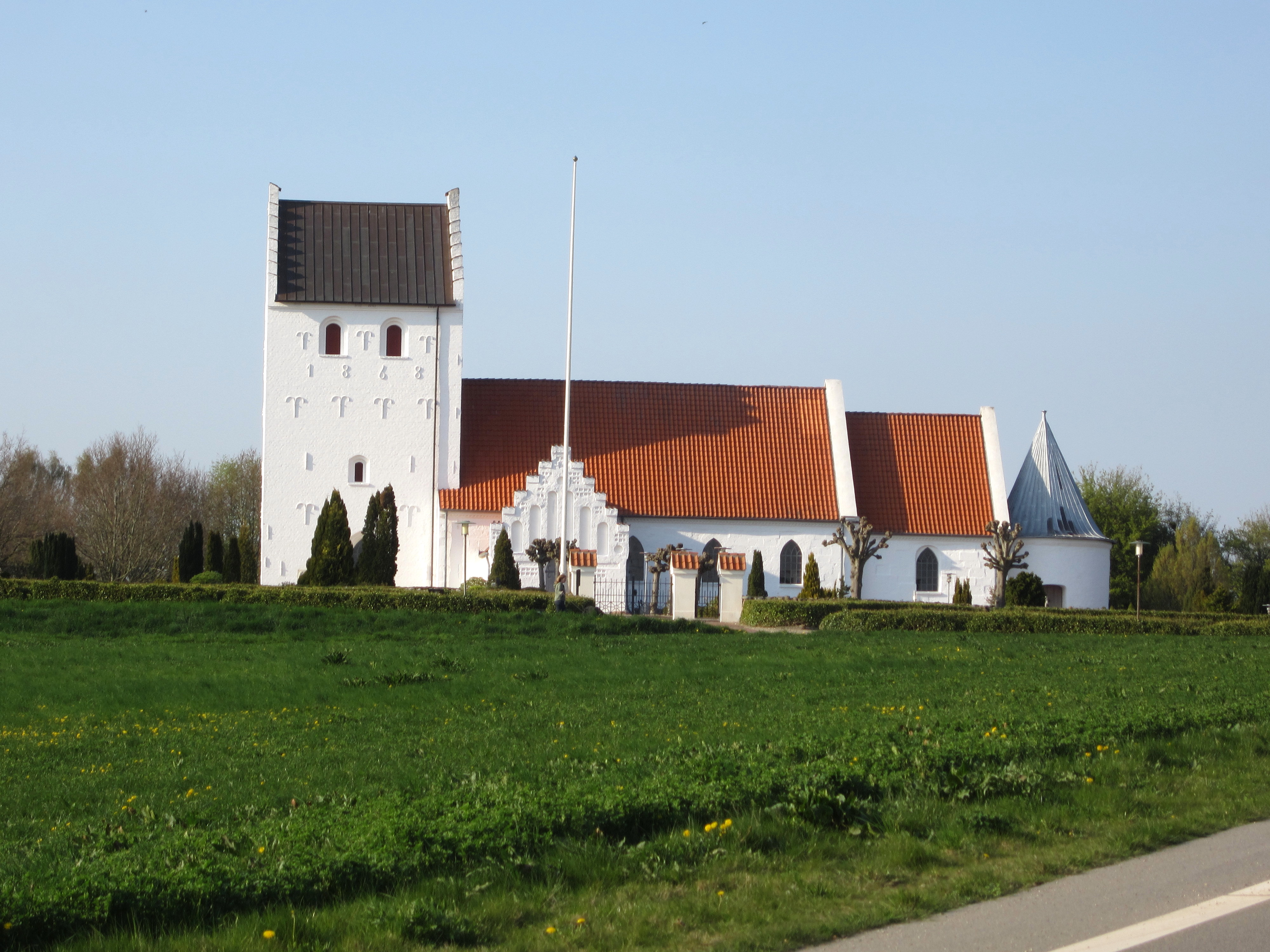 The church "Taulov Kirke" in Fredericia Kommune, South-Central Jutland, southern Denmark.